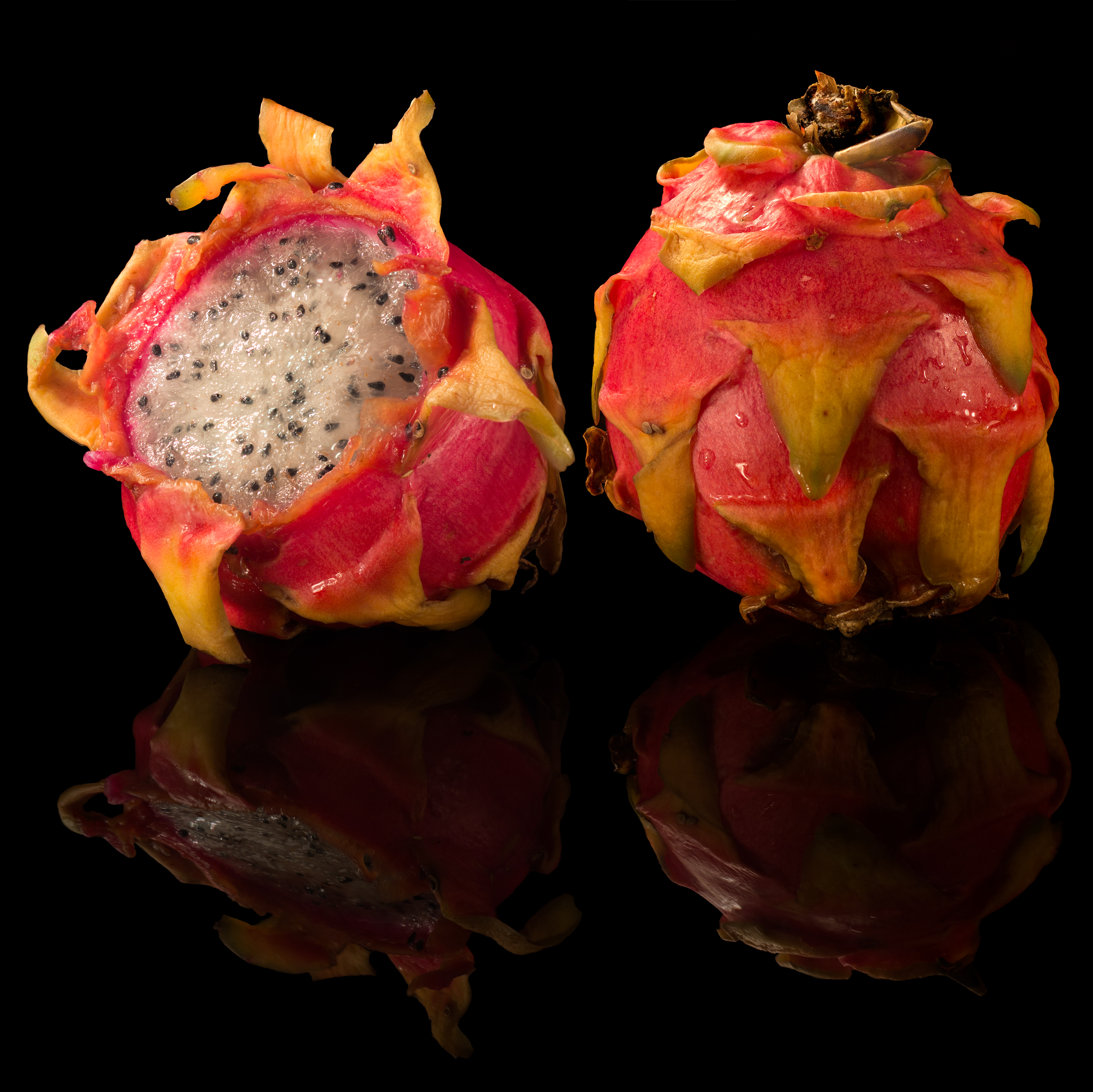 Pitaya (Hylocereus undatus) on black background